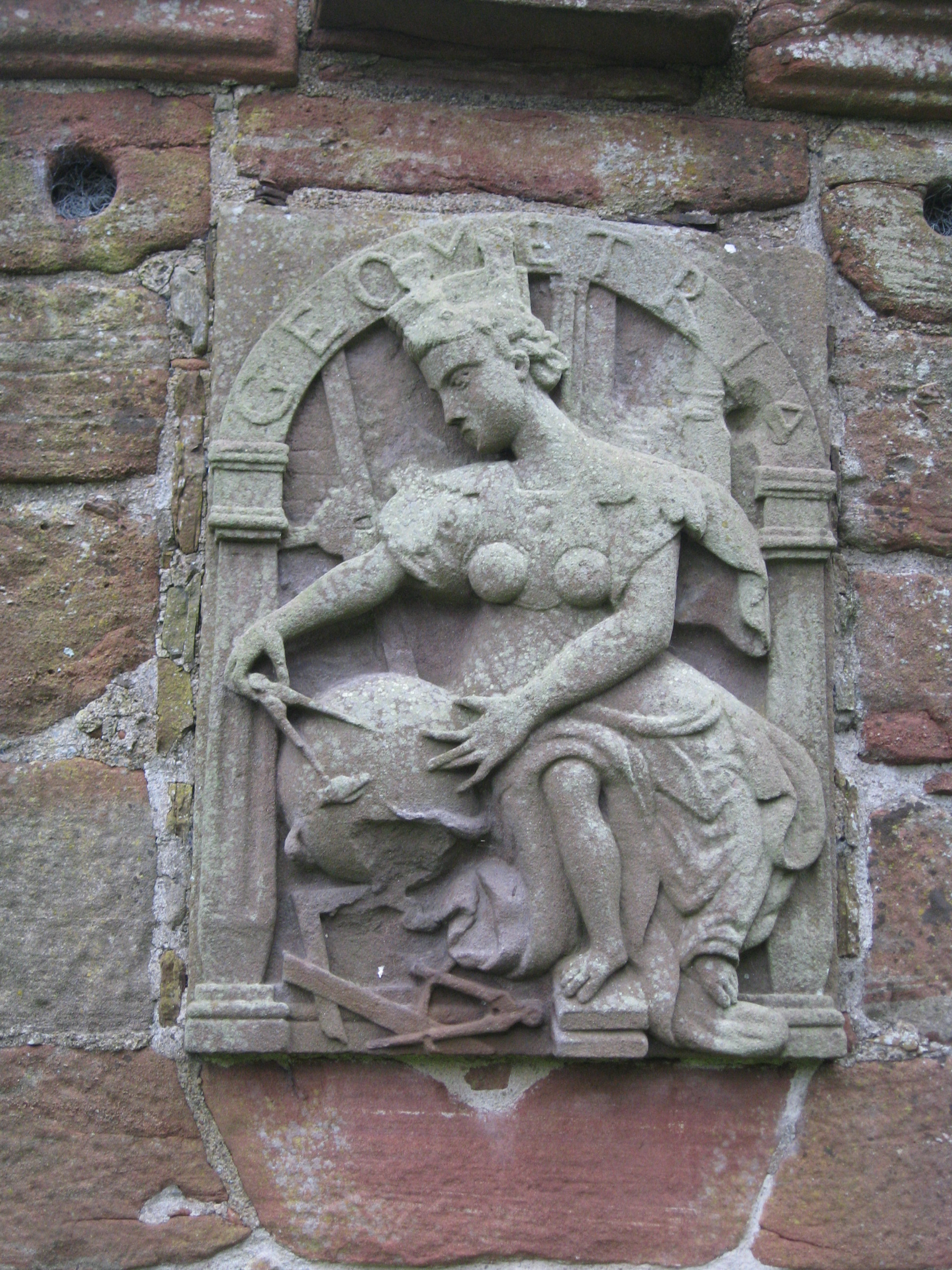 Allegory of Geometria in the garden of Edzell castle